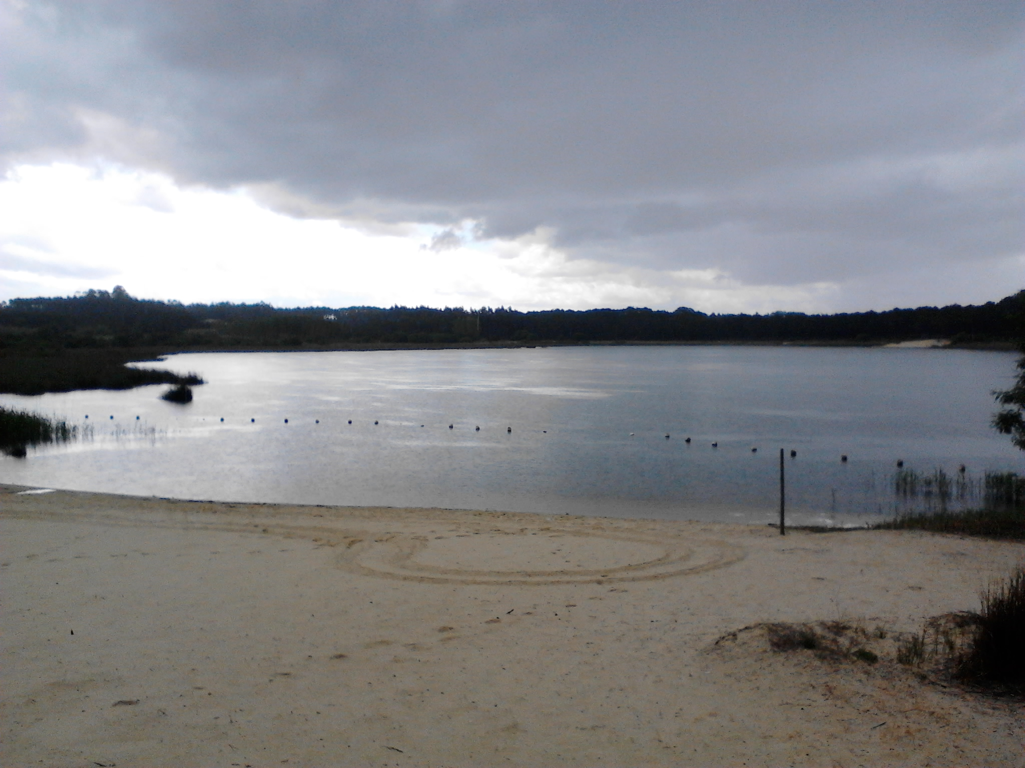 Ervedeira Lagoon in 2016